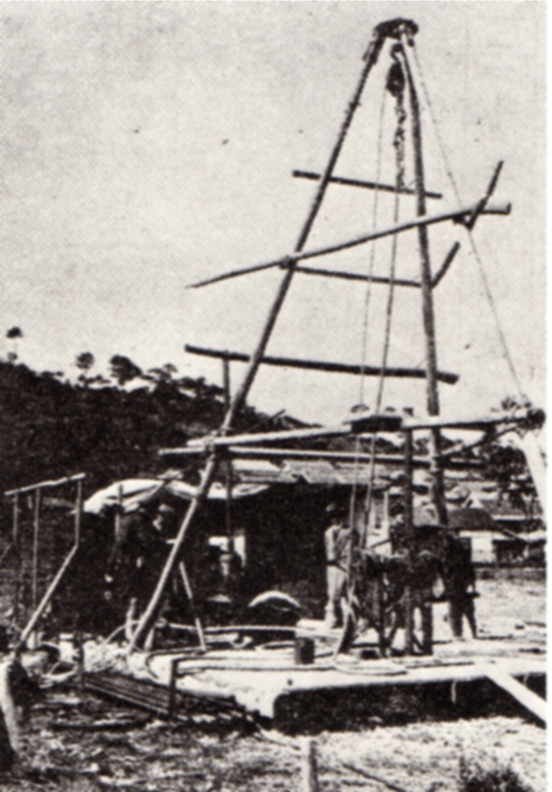 Drilling survey of geological condition at Hikoshima for construction of Kammon railway tunnel